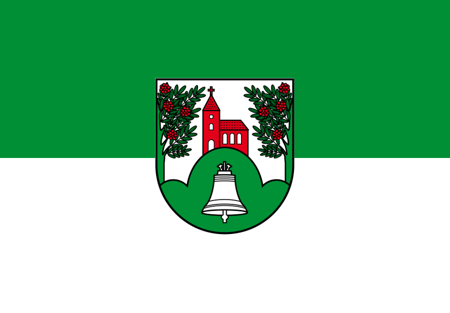 Flag of Eschenrode